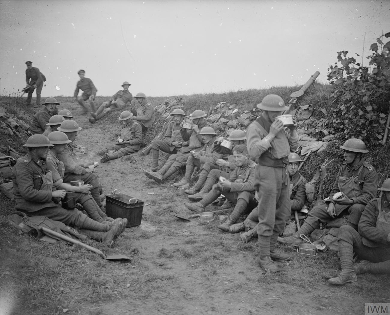 The Hundred Days Offensive, August-november 1918 Troops of No. 1 Platoon, A Company, 10th Battalion, Duke of Cornwall's Light Infantry (DCLI) breakfasting on their way to the line. Near Le Quesnoy, 27 October 1918.